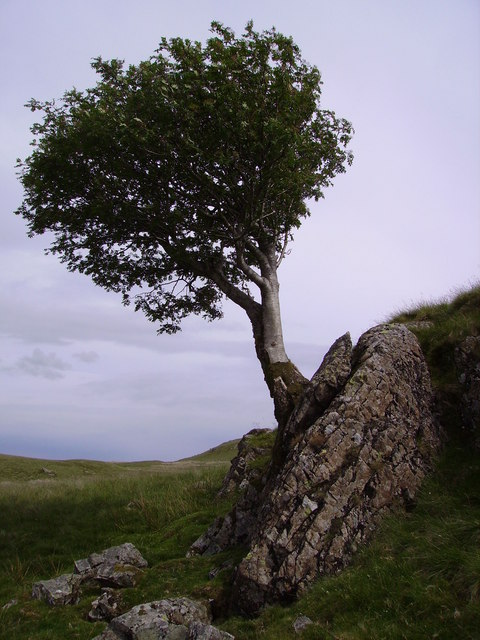 Flying Rowan. Near Glede Howe. Attributed with magical properties by the ancient Britons and a common sight to hillgoers. This one is famous for being used as a guide to the head of Truss Gap in a popular book on the lakeland fells by Bill Birkett.